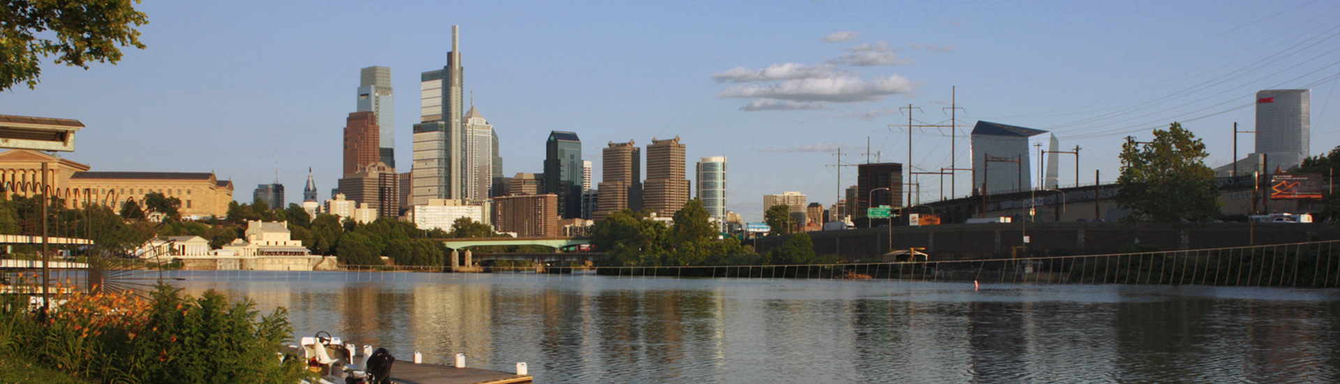 Philadelphia skyline from Boathouse Row, 2019